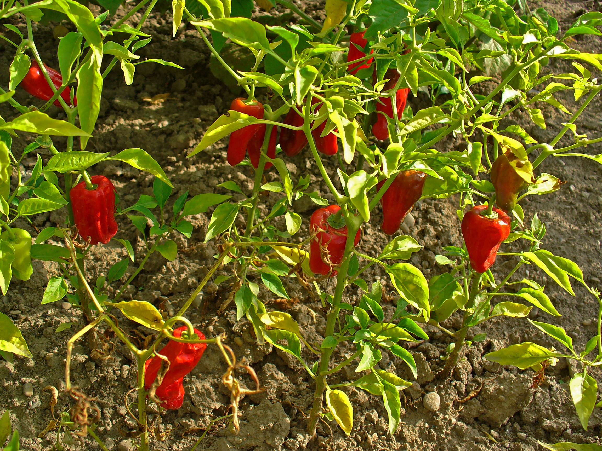 Capsicum annuum, Solanaceae, Capsicum, habitus; Botanical Garden KIT, Karlsruhe, Germany. The ripe dried fruits are used in homeopathy as remedy: Capsicum (Caps.)